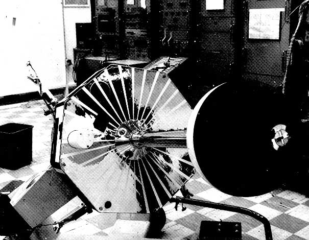 Satelite Explorer 21 (IMP-B) during laboratory works.